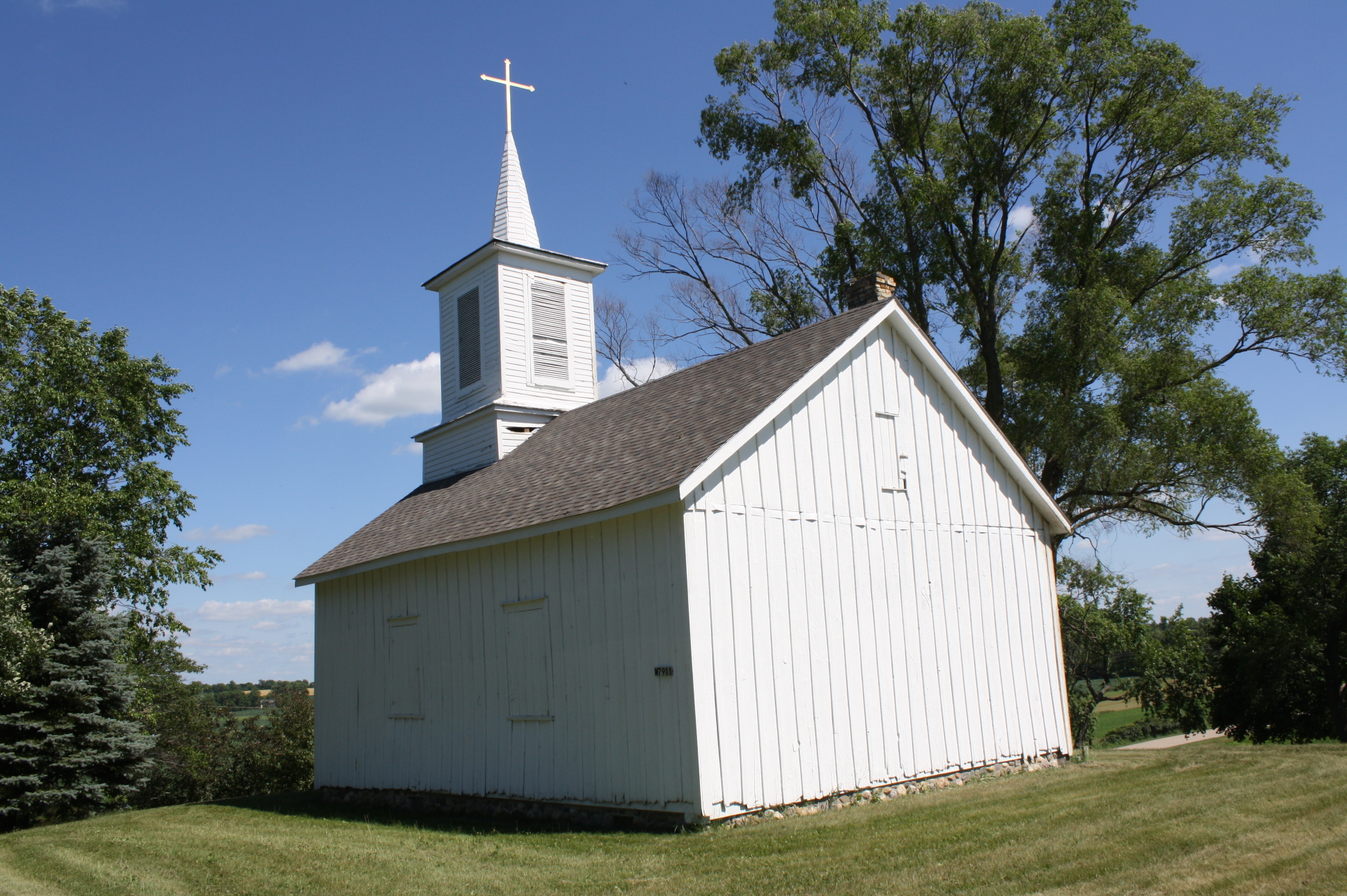 The St. Wenceslaus Roman Catholic Church in the country near Waterloo, Wisconsin. It is listed on the National Register of Historic Places.